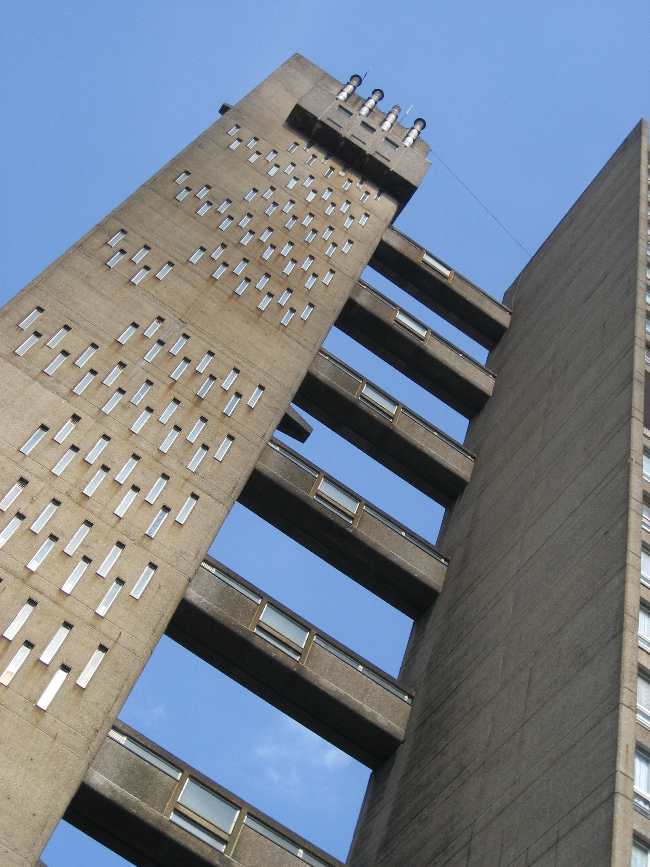 Balfron Tower, London.